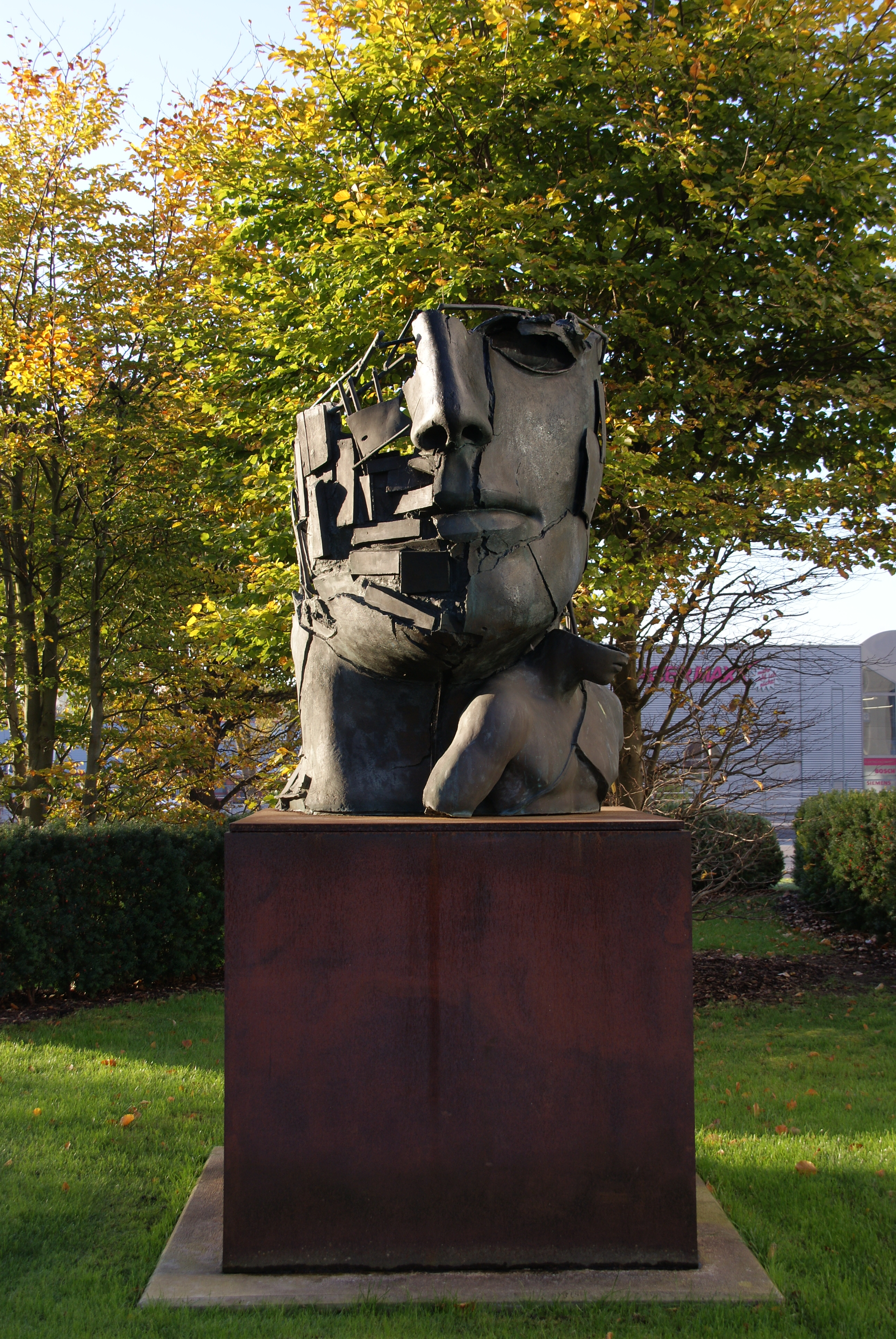 Centurione III, sculpture by Igor Mitory, 1992, situated on the site of Gewerbepark Regensburg, Germany